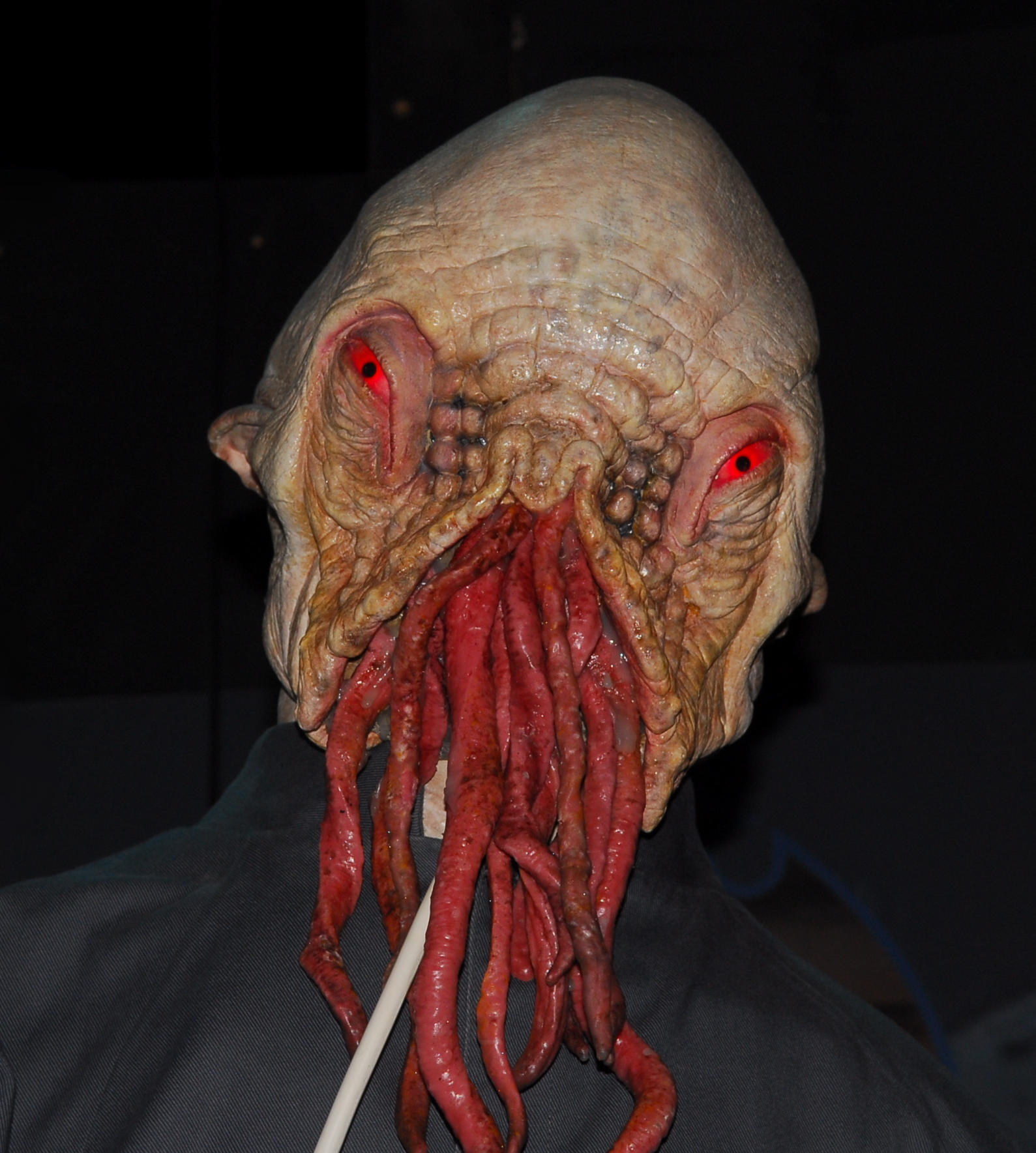 an Ood Doctor Who Experience